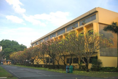 PSHS SCIENCES-HUMANITIES BUILDING